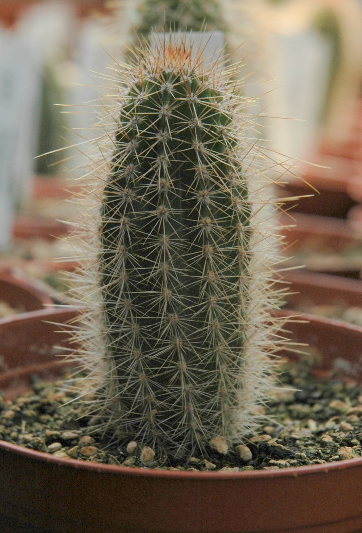 Cultivated plant of Armatocereus godingianus